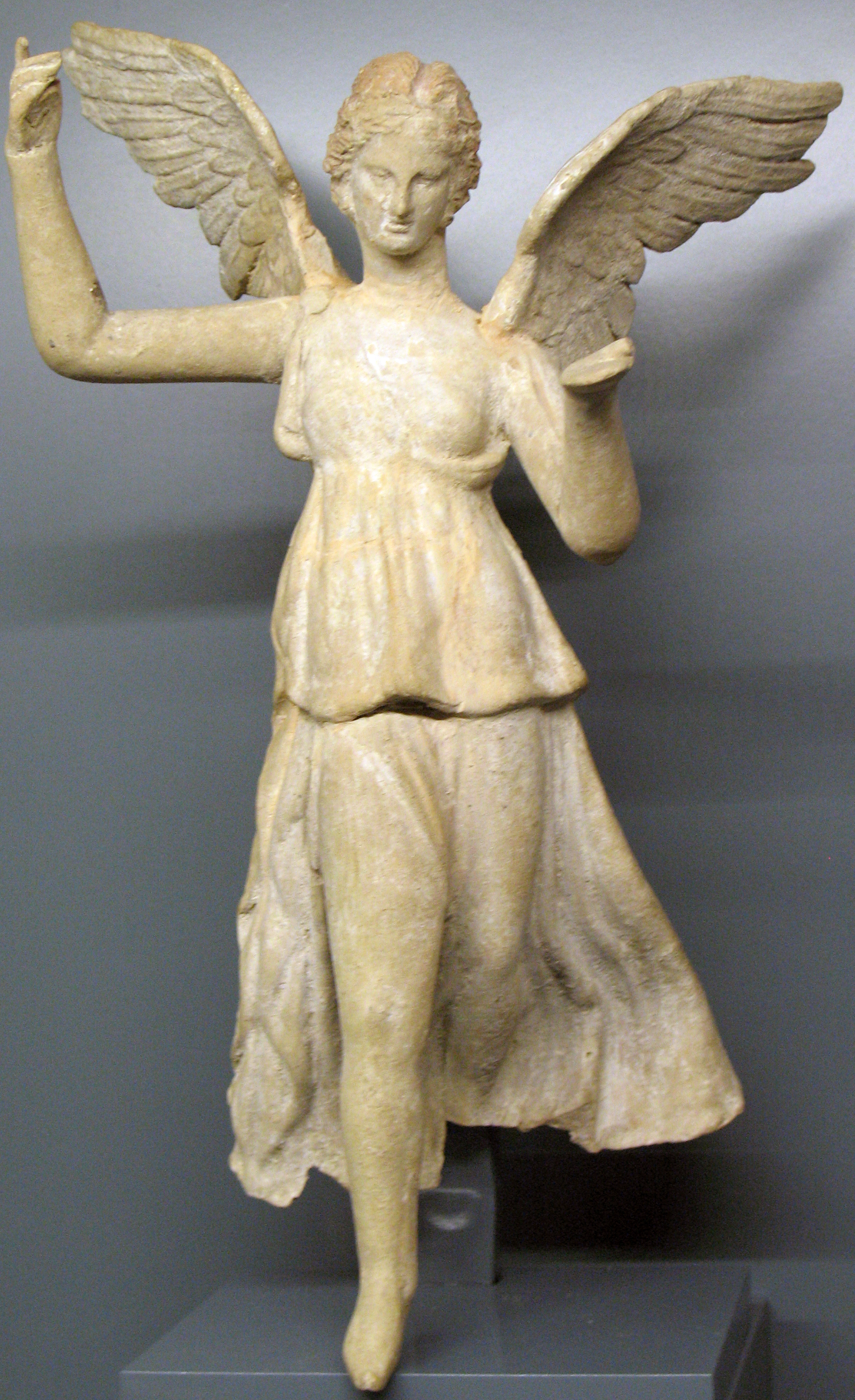 Flying Nike, Myrina, 2nd - 1rst century B.C.